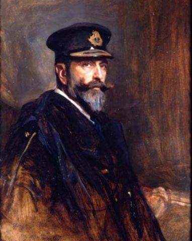 Portrait of Prince Louis of Battenberg